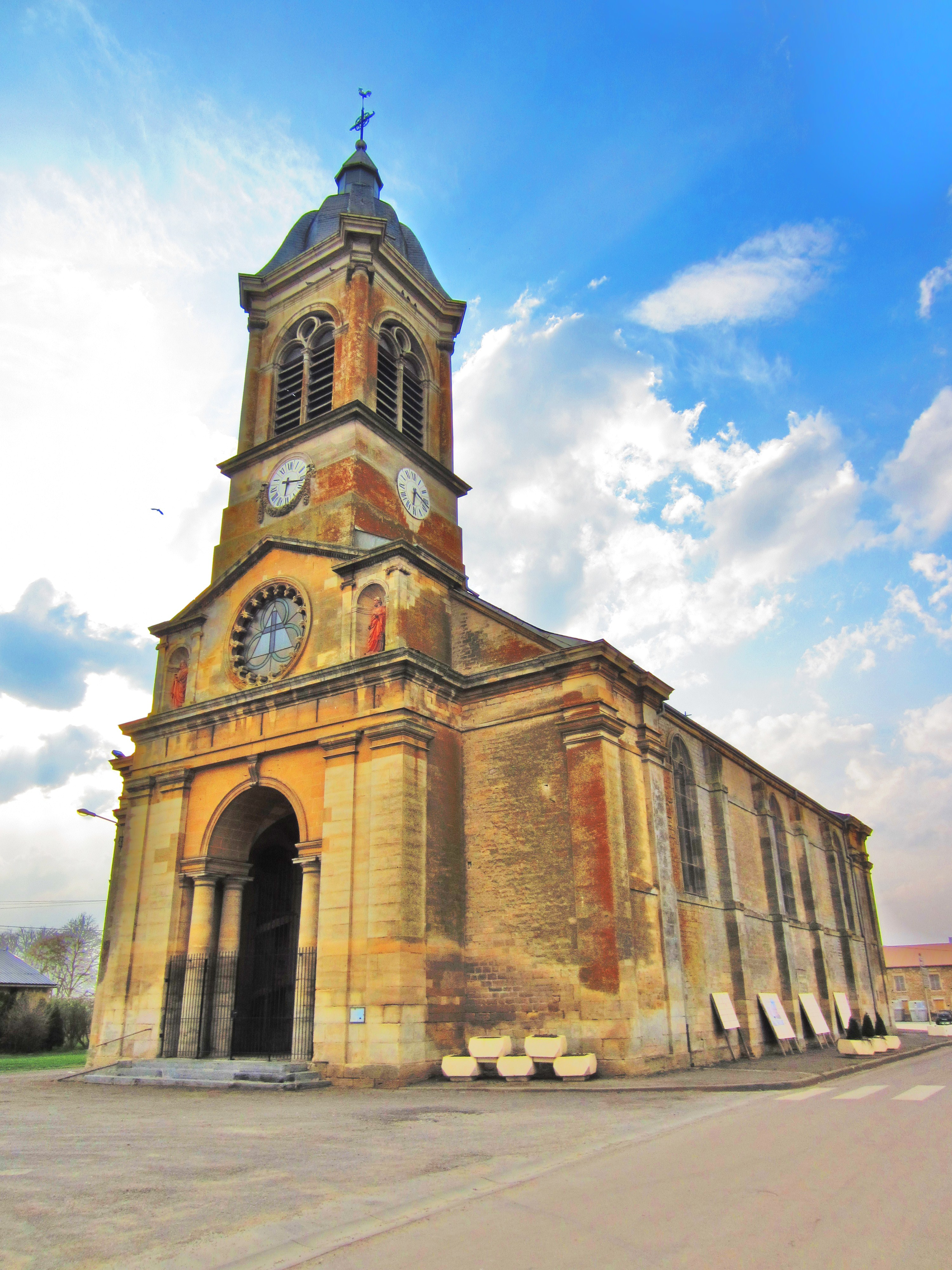 Mangiennes church